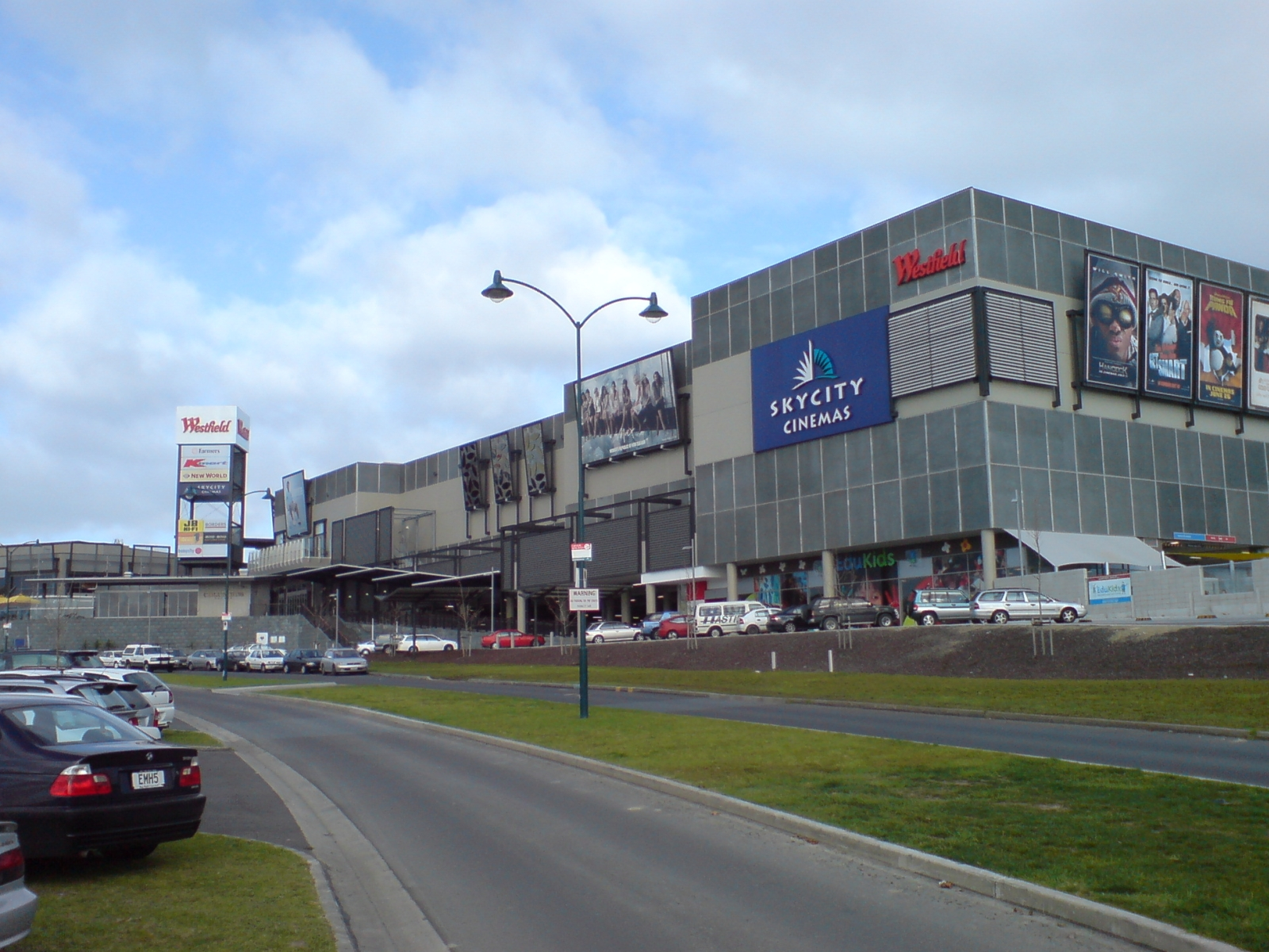 A view of Westfield Albany in North Shore City, New Zealand.